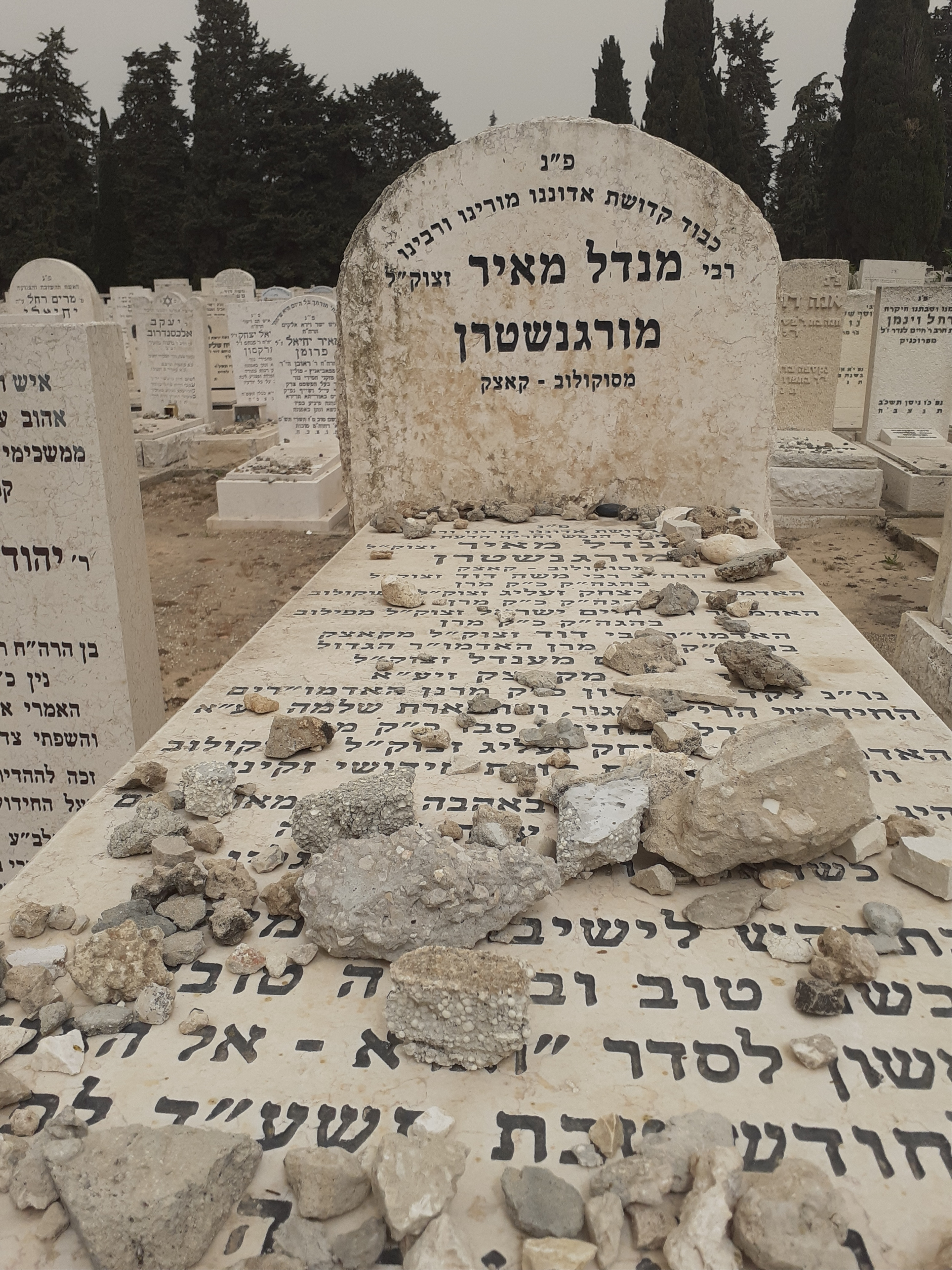 grave of Mendle Meir Morgenstern